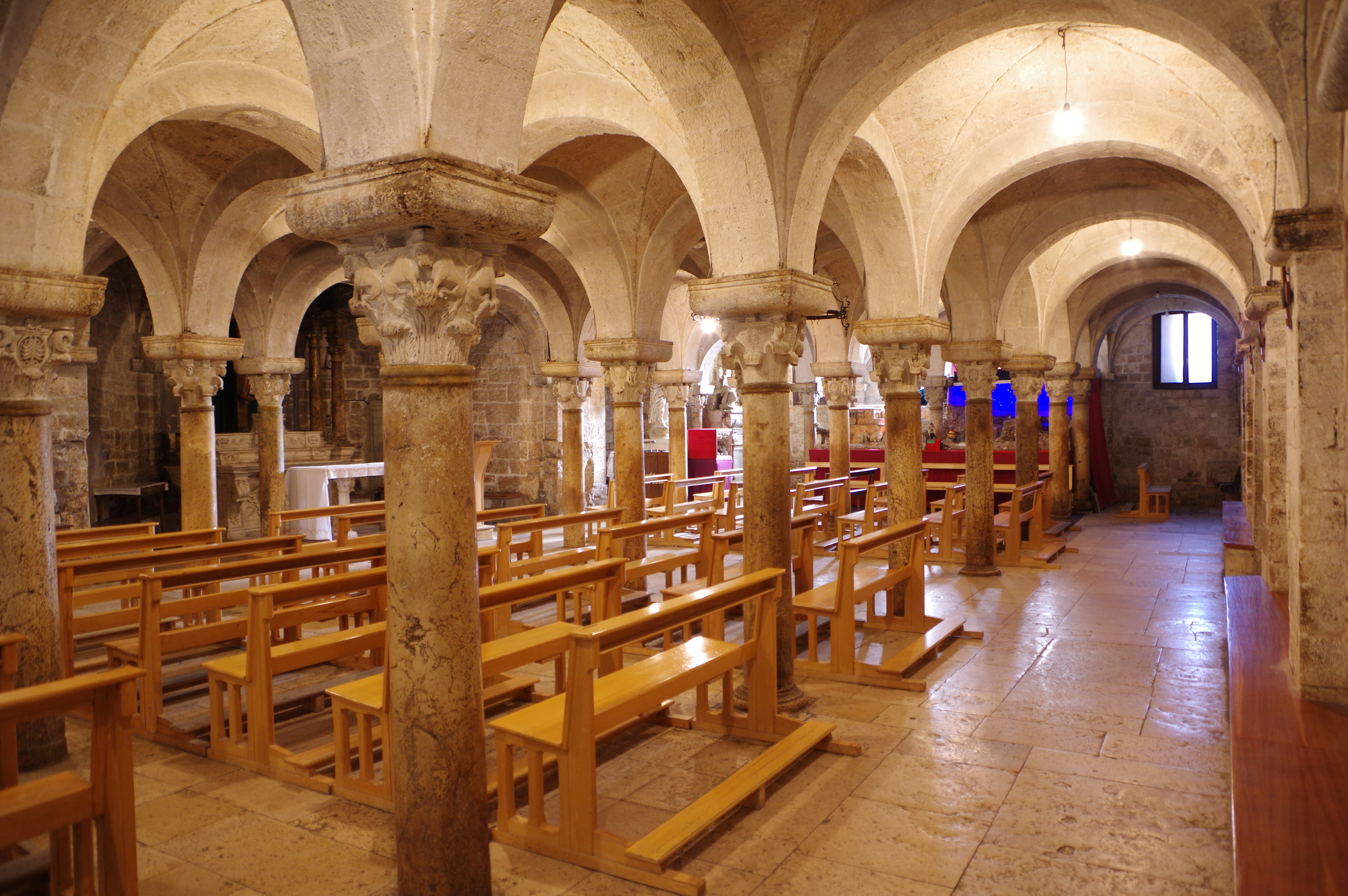 Italy, Bitonto, San Valentino cathedral